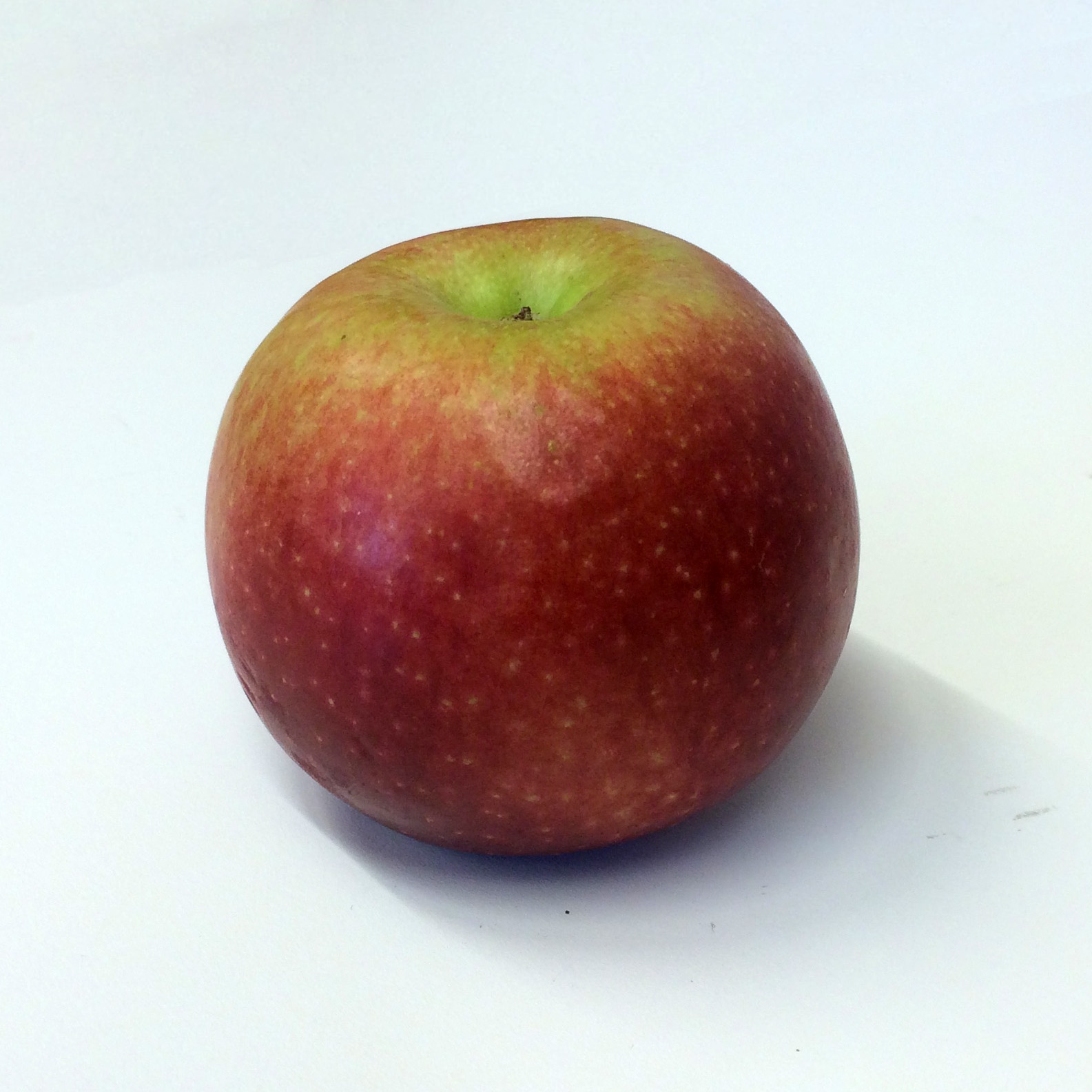 Apple of the cultivar Kim, photographed in conjunction with the Apple Festival at Nordiska museet, Stockholm, Sweden in September 2014.